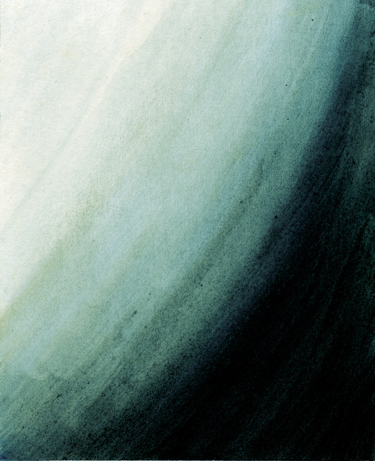 Biblical illustration of Book of Genesis Chapter 1